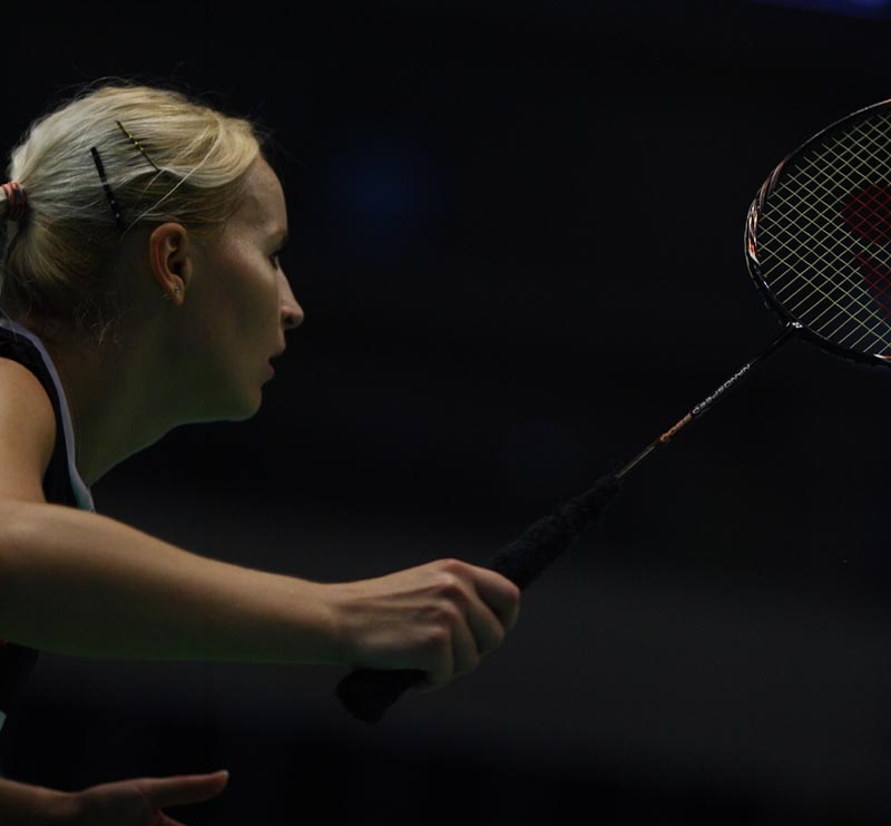 SEPTEMBER 24, 2009 - Badminton : Anastasia Russkikh at the Yonex Open Japan 2009 at Tokyo Metropolitan Gymnasium on September 24, 2009 in Tokyo, Japan. (Photo by Tsutomu Takasu)